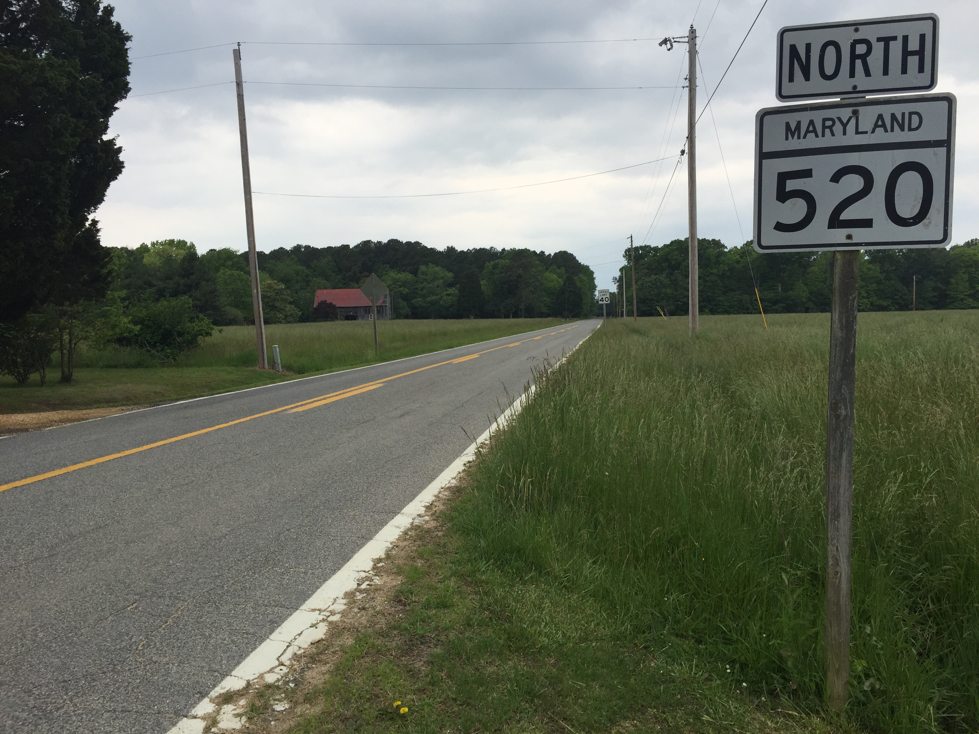 View north near the south end of Whites Neck Road (Maryland State Route 520) in Bushwood, St. Mary's County, Maryland